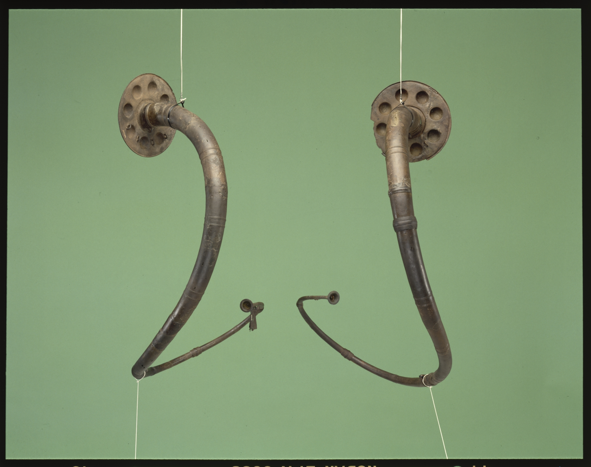 Pair of Lurs from Radbjerg, Væggerløse sogn, Denmark (B5790 ja B5791)